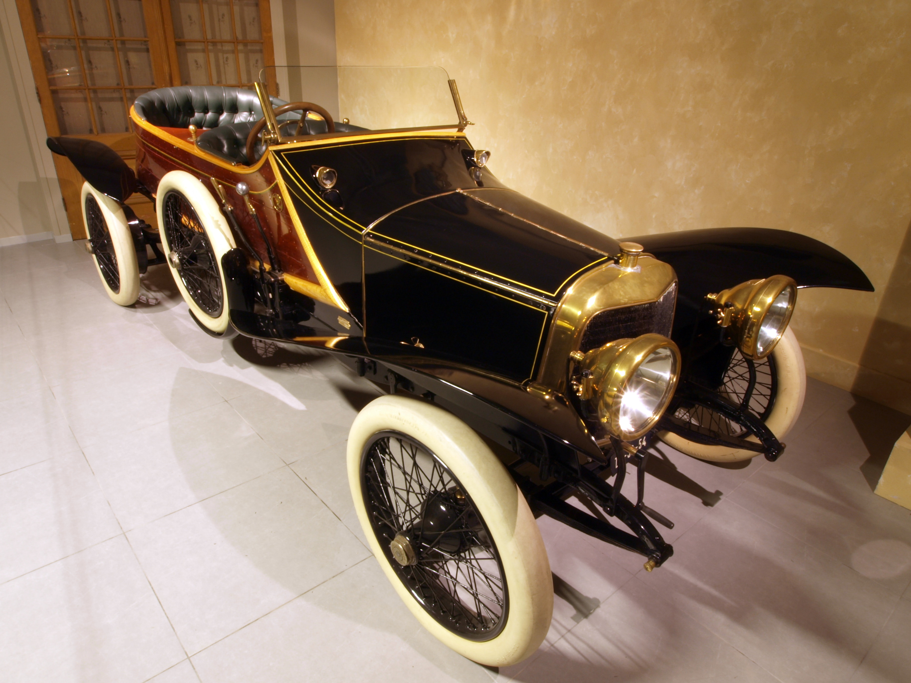 Photographed at the Louwman museum / Louwman Collection, The Netherlands.